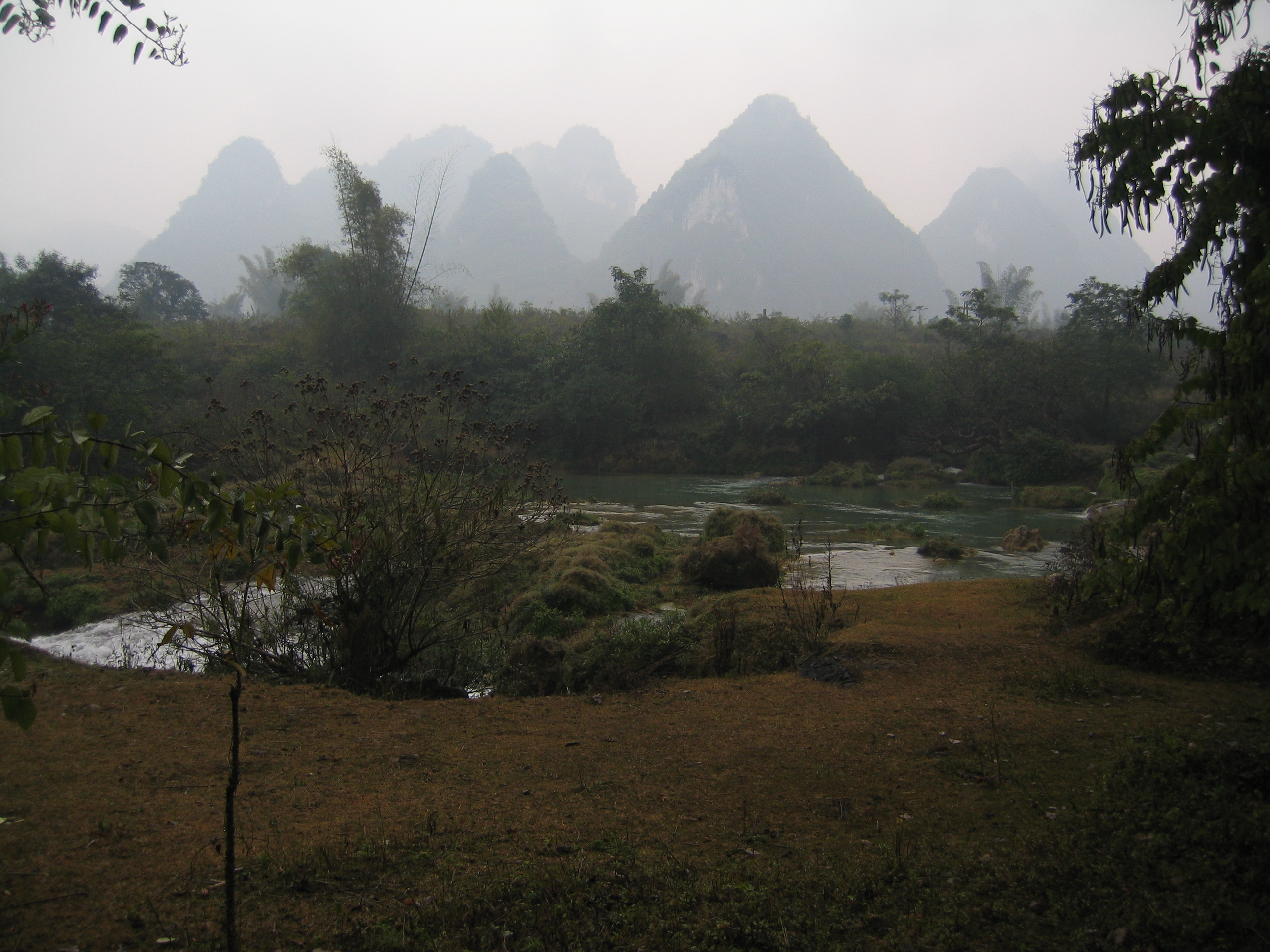 Ban Gioc – Detian Falls in the Sino-Vietnamese border